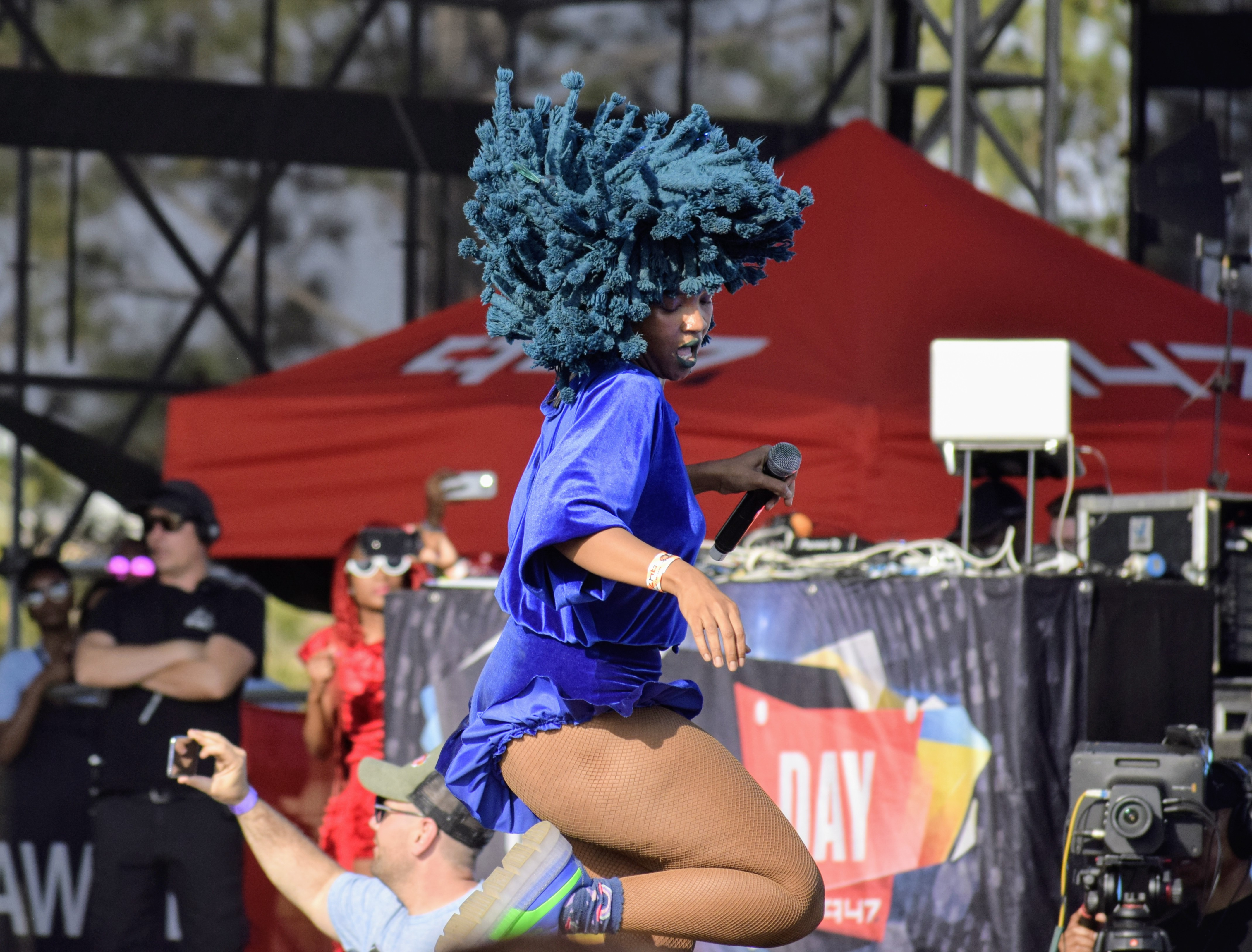 This is an image with the theme "Play" from: South Africa